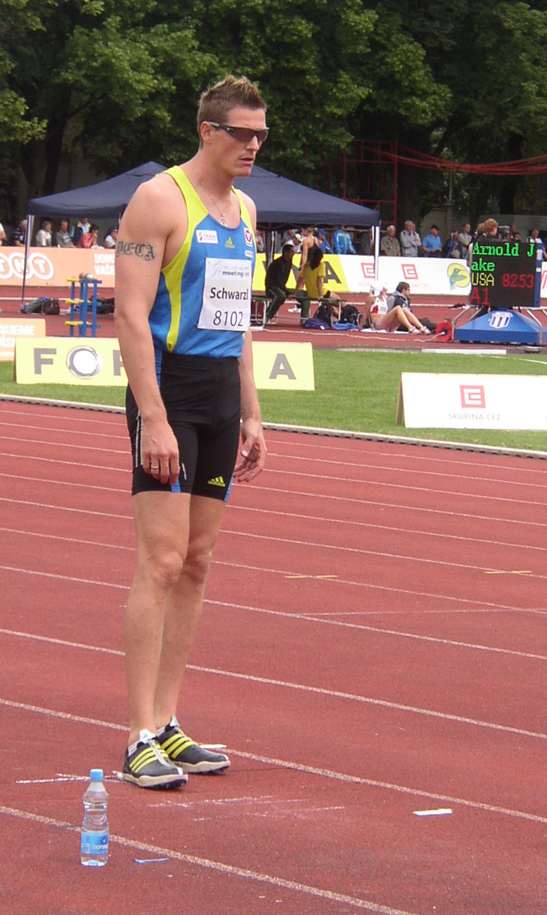 Athlete Roland Schwarzl of Austria prepares for his attempt in long jump during men's decathlon at 4th edition of the TNT - Fortuna Meeting (IAAF World Combined Events Challenge Meeting, Sletiště Stadium, Kladno, Czech Republic, 15 June 2010, 13:09).